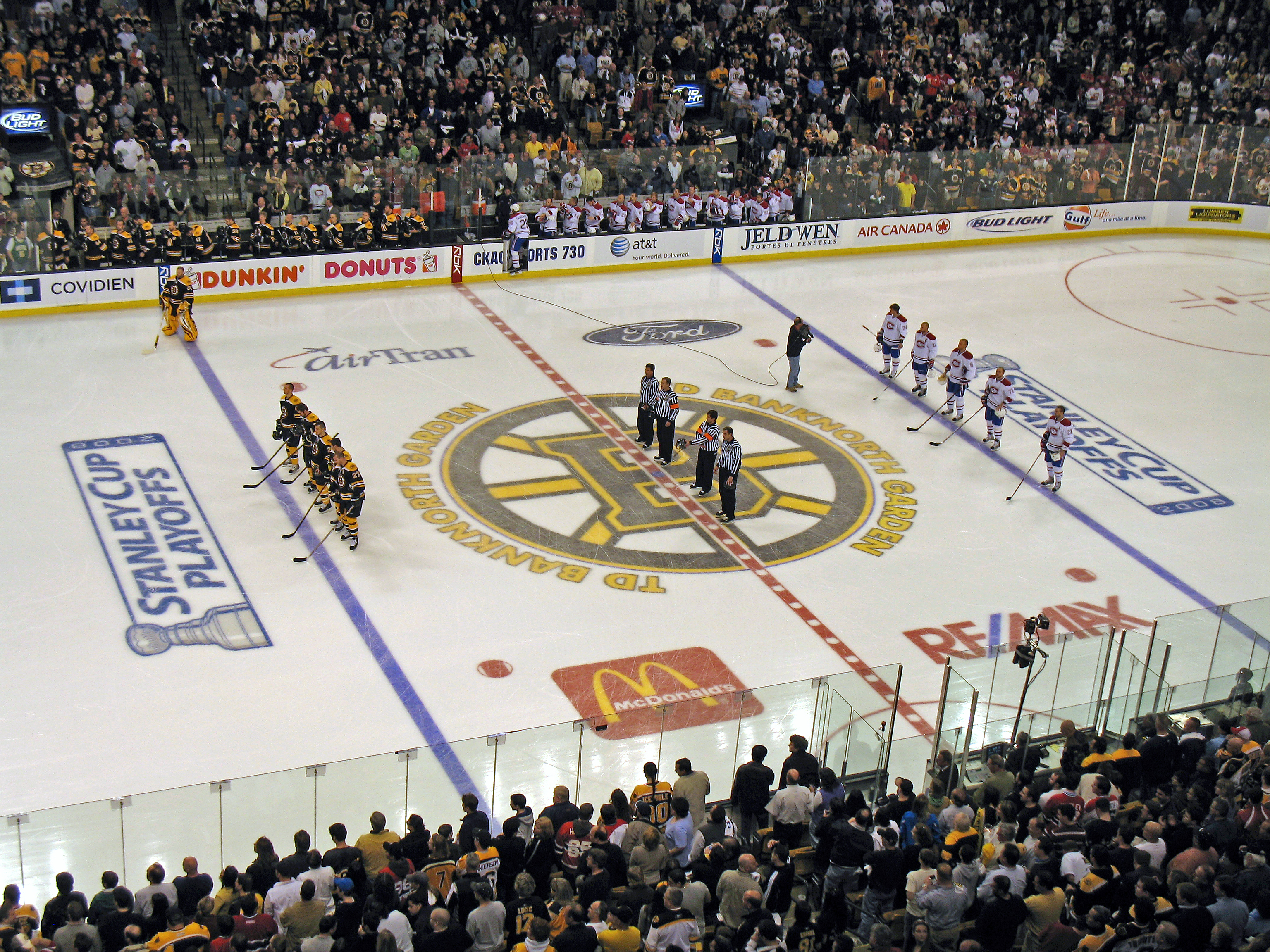 Boston Bruins vs Montreal Canadians at TD Banknorth Garden. April 19, 2008. Years ago, I was a big Bruins/hockey fan. In fact, I hadn't been to a game in many years, none at the new TD Banknorth Garden. I was fortunate to get tickets for the 4/19 Stanley Cup Semifinal game. It was one of the best games I can remember. Here the teams line up for the two national anthems prior to the start.